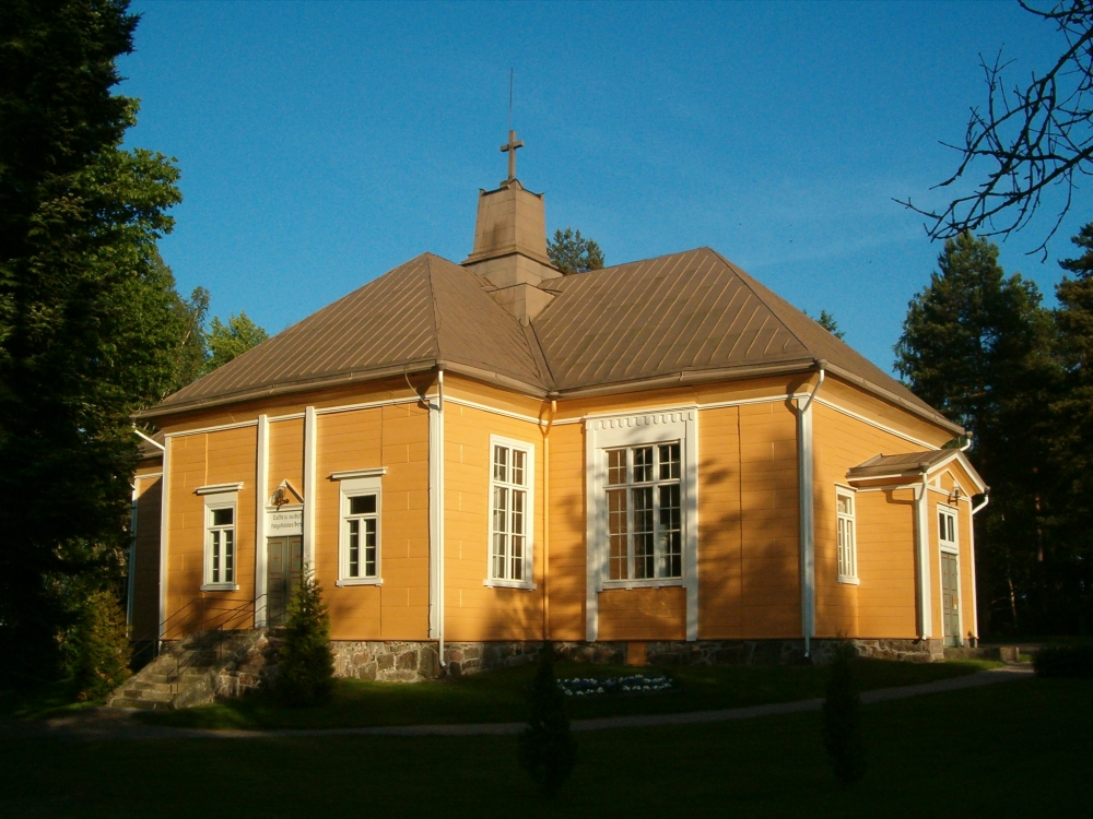 Suomusjärvi Church in Salo, Finland